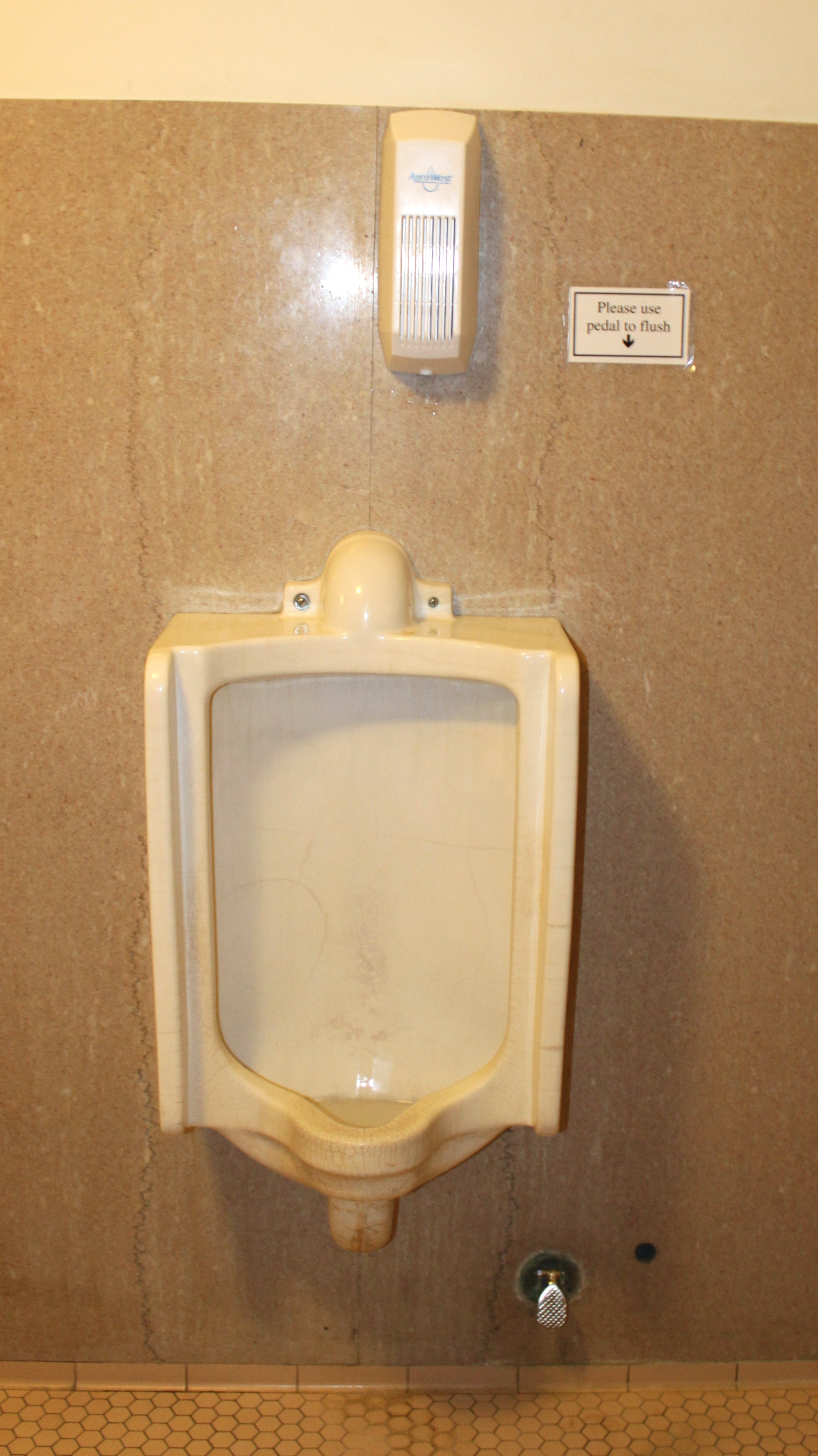 Urinal with pedal flush, Rackham Graduate School, University of Michigan, 915 East Washington Street, Ann Arbor, Michigan